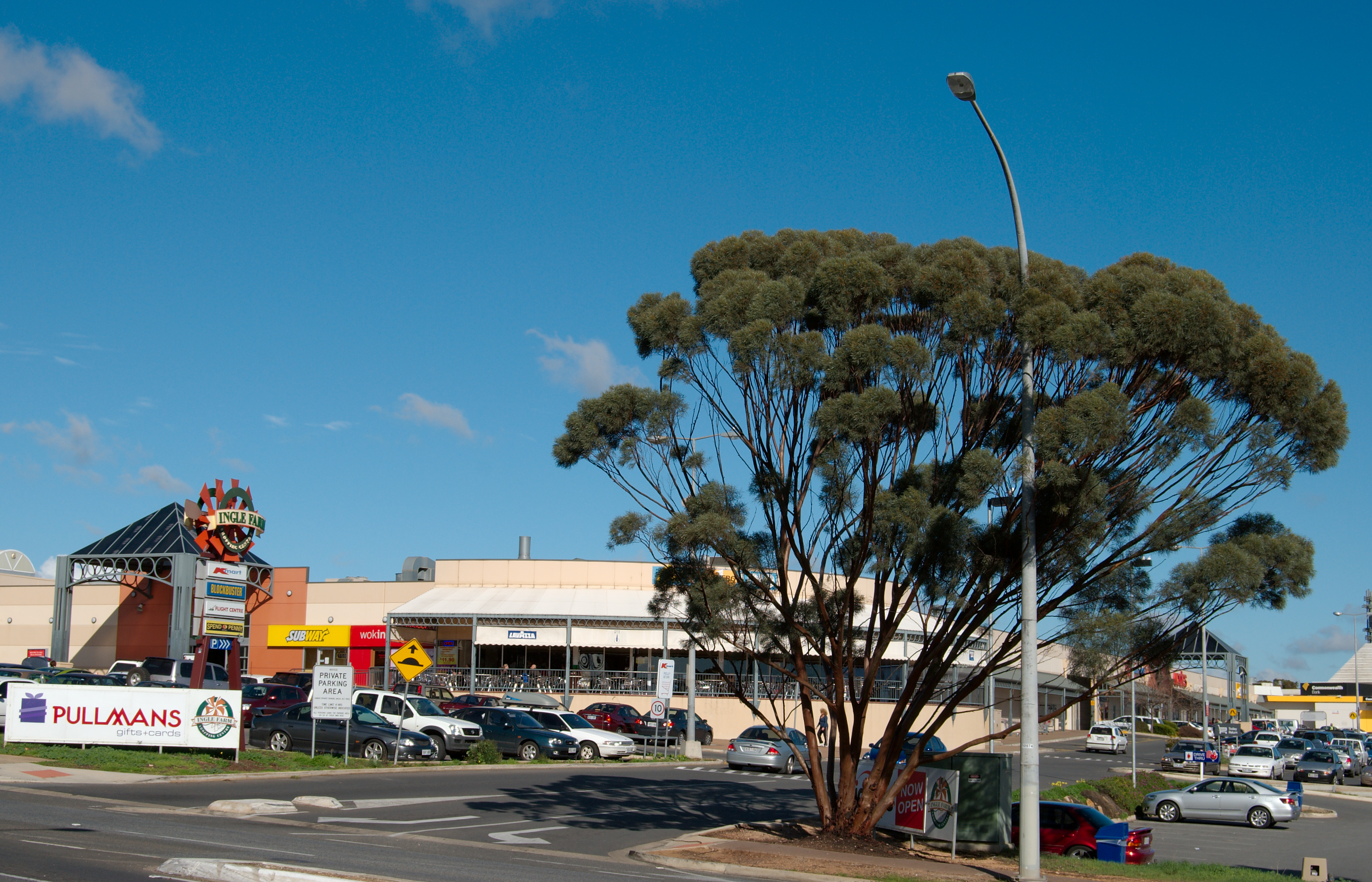 Entrance Driveway to Ingle Farm shopping Centre, Montague Road, Ingle Farm, South Australia